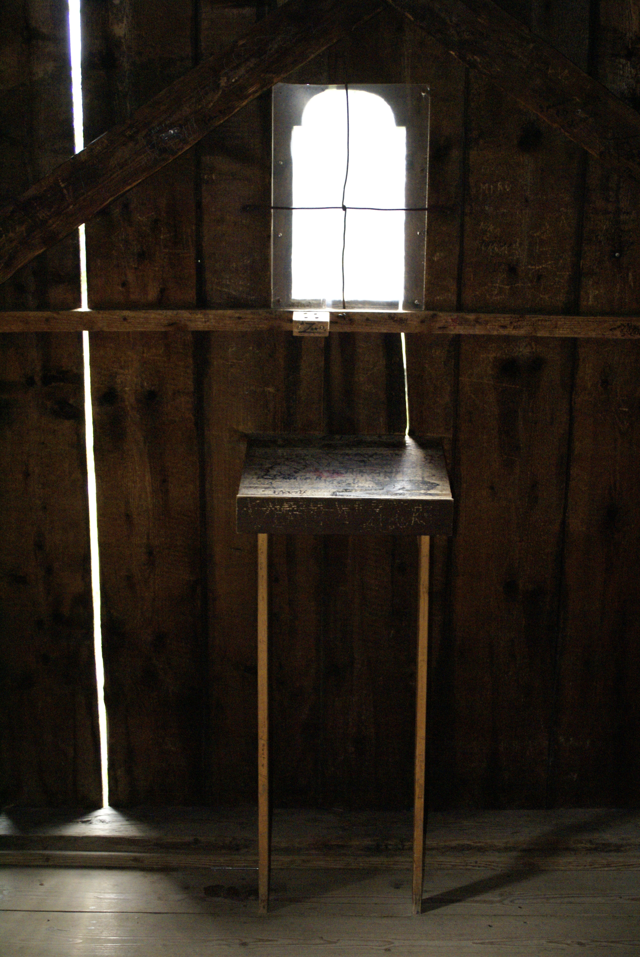 Open air museum of typical slovakian old Orava village, Zuberec, West Tatras, Slovak Republic